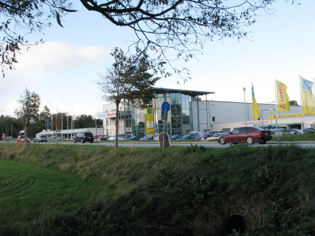 Bundesstraße 5 in the city of Breklum, Germany